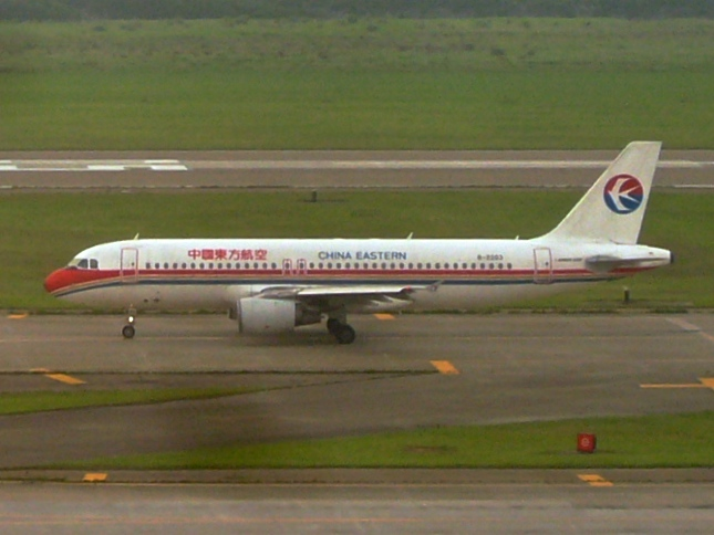 China Eastern Airlines Airbus A320-200